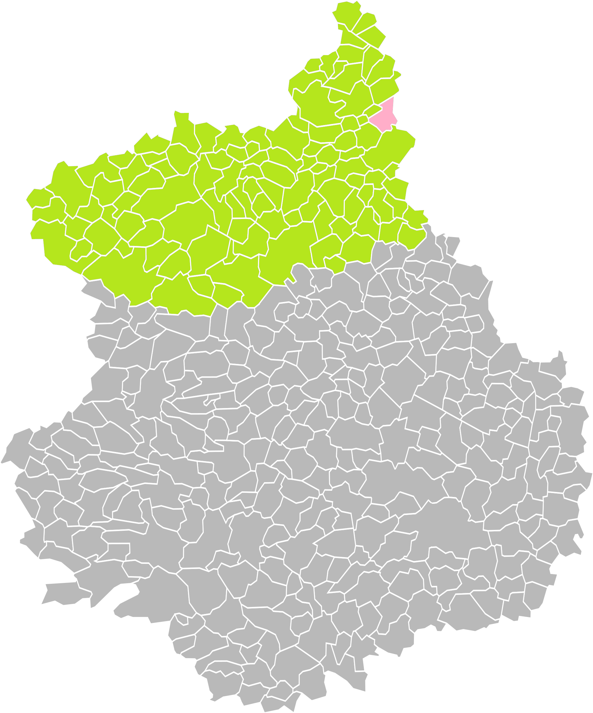 Location of the commune of Goussainville in the arrondissement of Dreux (Eure-et-Loir)